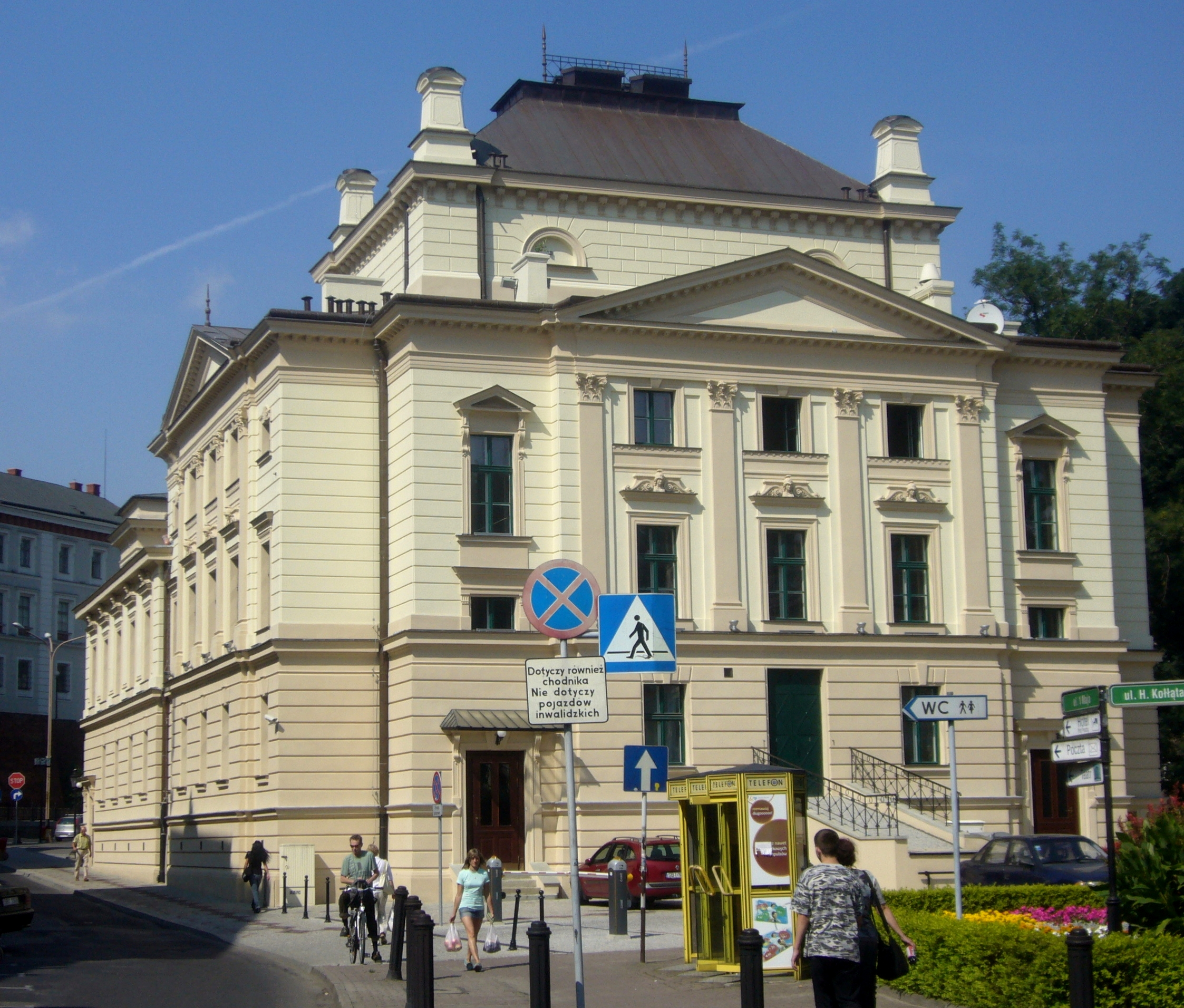 Back facade of Polish Theatre in Bielsko-Biała, Poland.